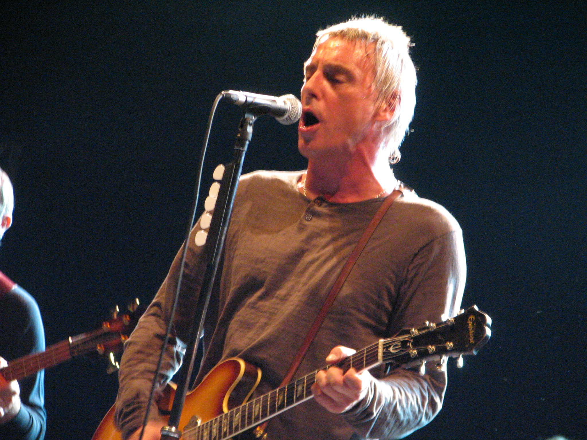 Paul Weller in concert